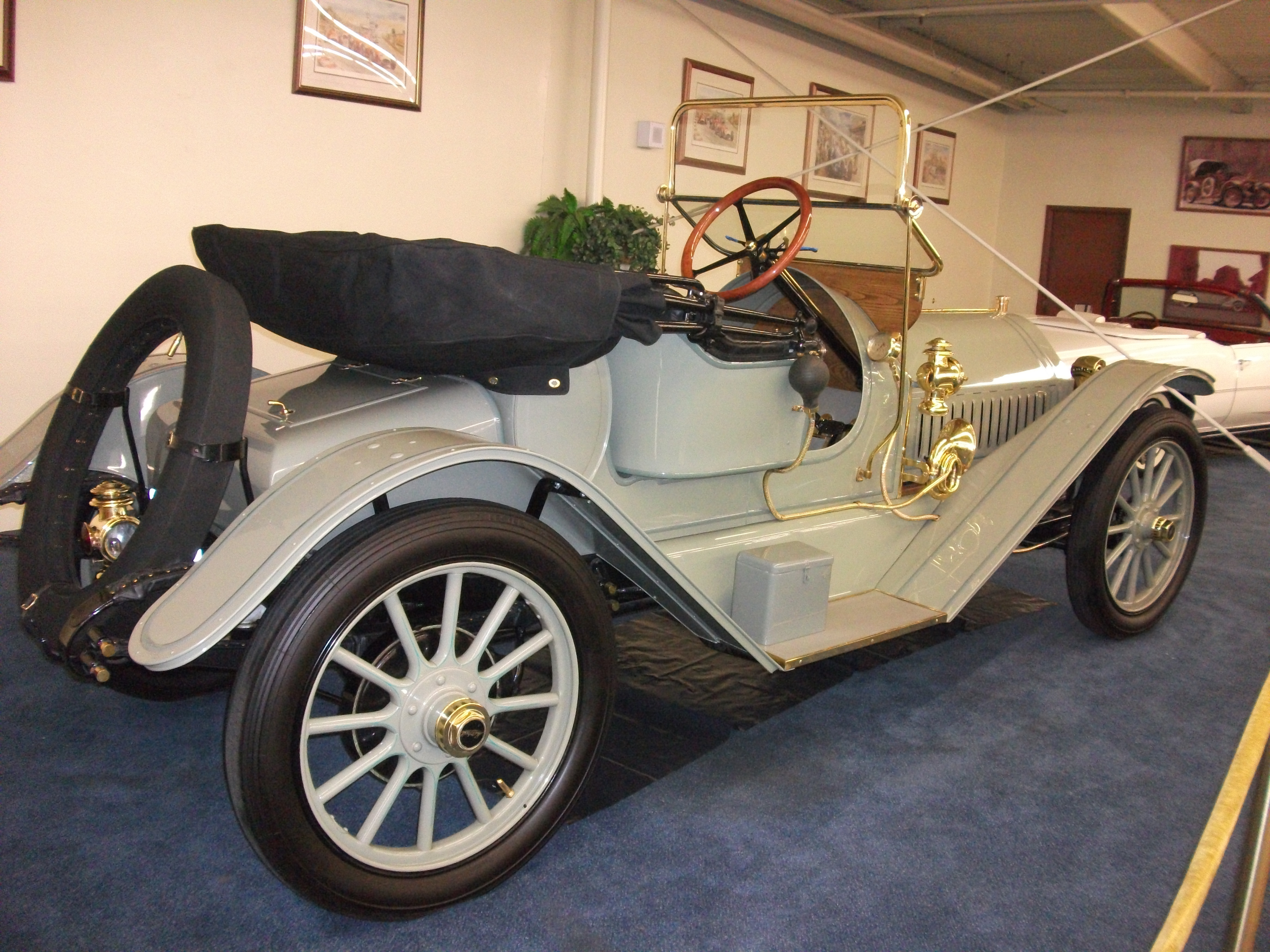 Powered by a 50hp L-head inline six cylinder engine this is believe to be the only surviving six cylinder runabout.